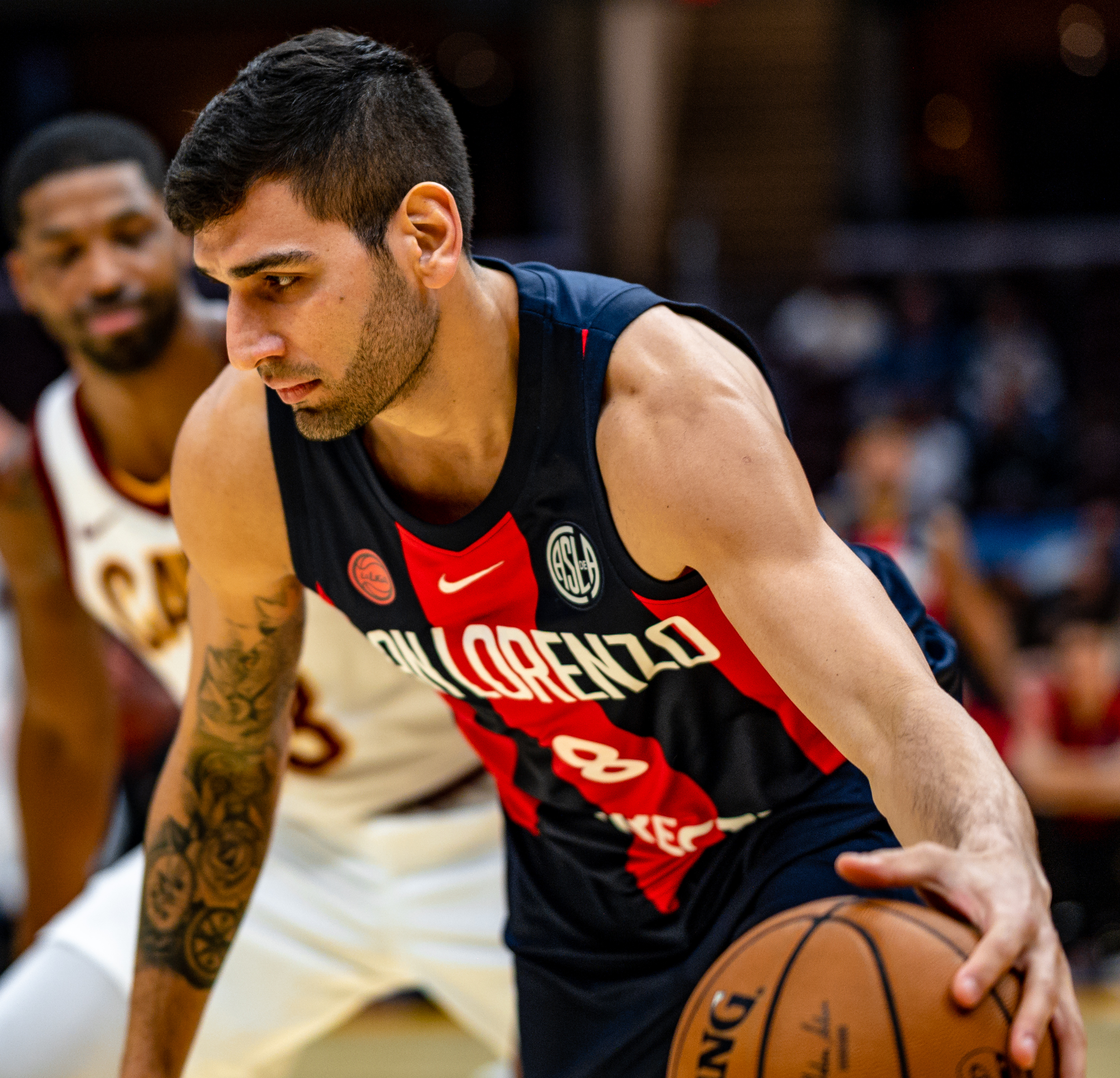 Basketball player Luciano González with San Lorenzo, playing the Cleveland Cavaliers.